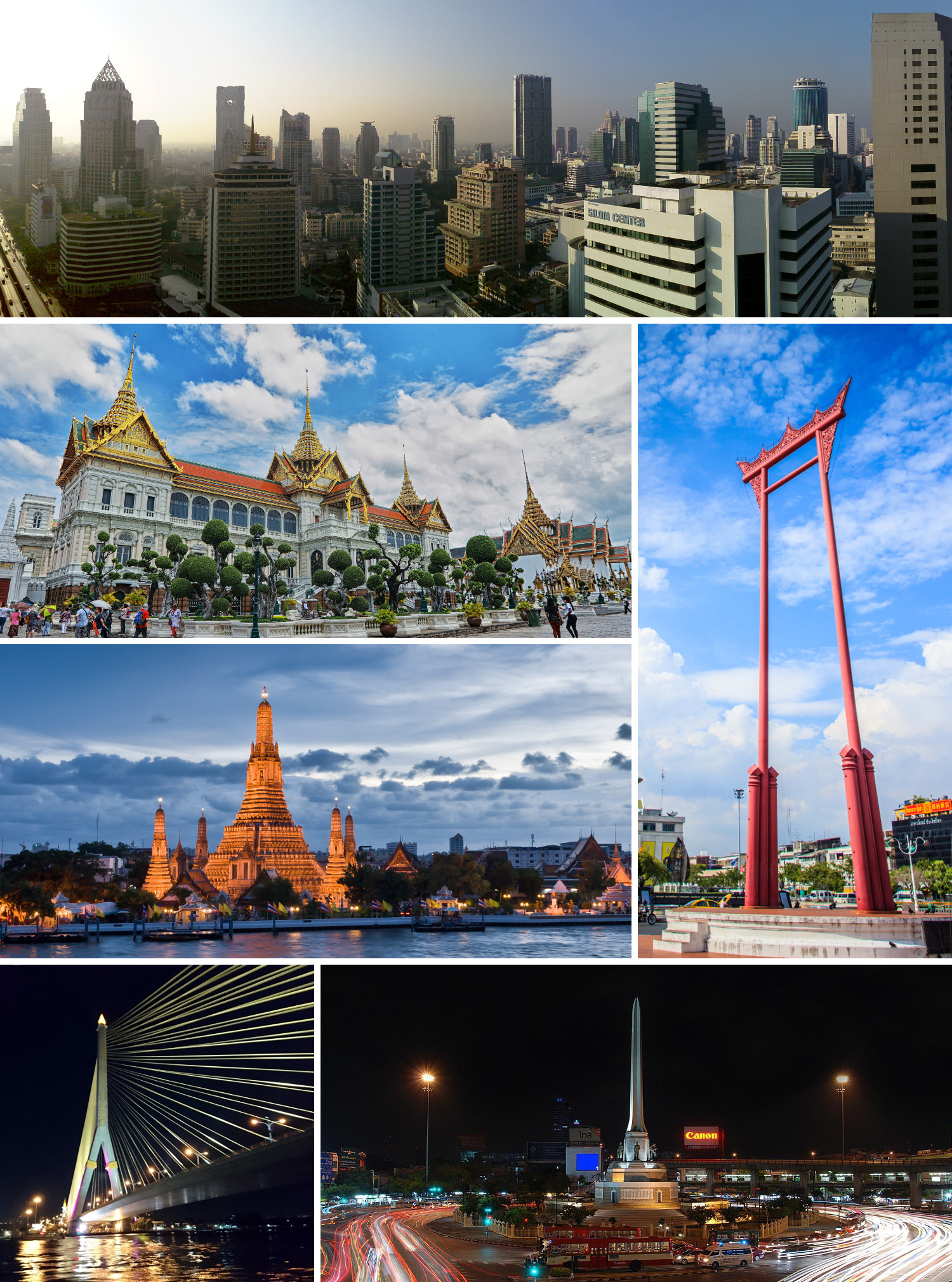 Photo montage of Bangkok—Clockwise from top: Si Lom – Sathon business district, the Giant Swing, Victory Monument, Rama VIII Bridge, Wat Arun, and the Grand Palace